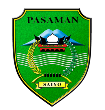 Former Logo of Pasaman Regency